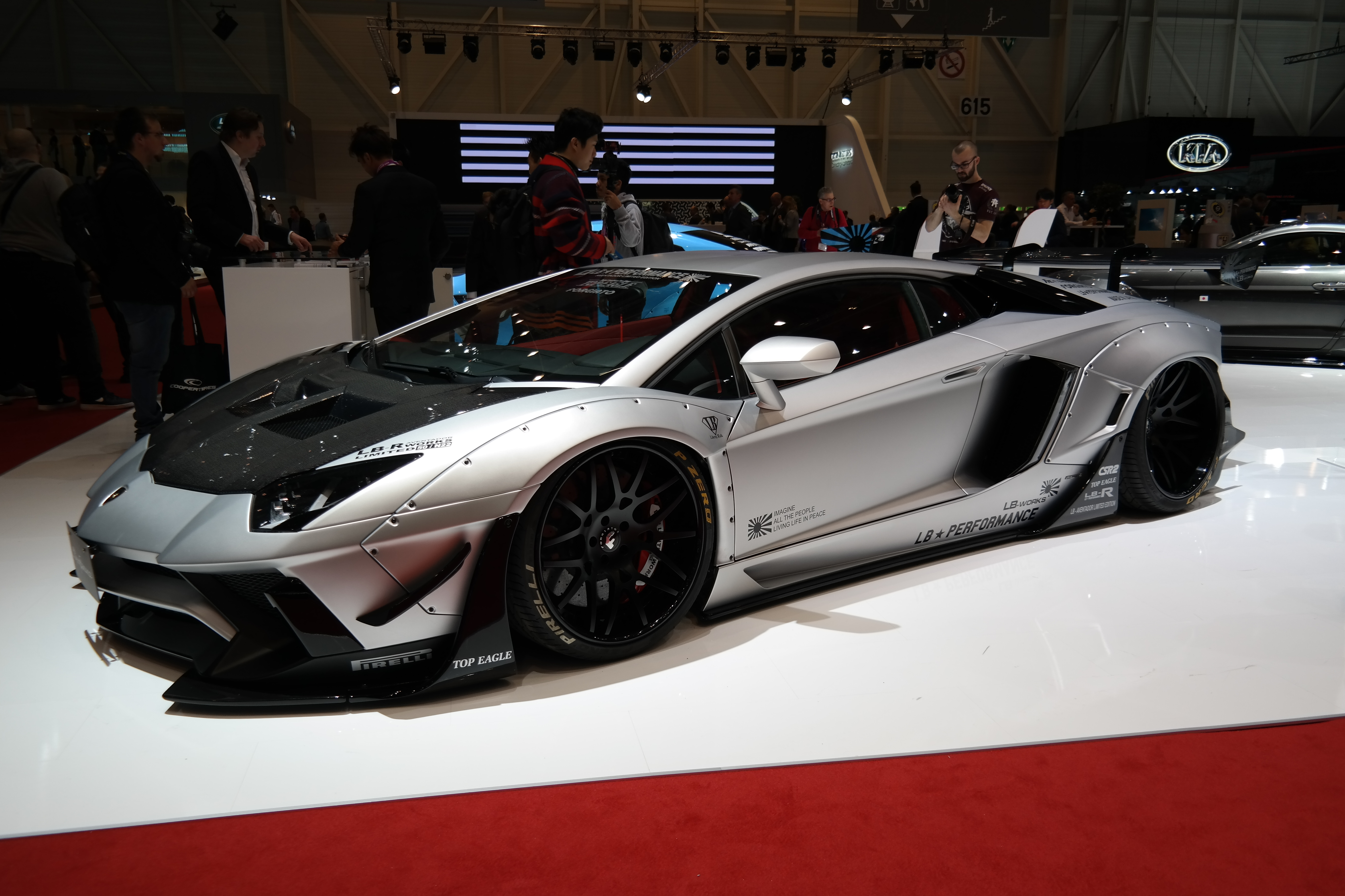 Liberty Walk Aventador, Geneva Motor Show 2018 (photo taken on the first press day)